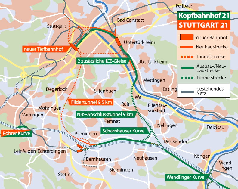 Schematic map with a comparison of the German railway traffic project "Stuttgart 21" and the proposed alternative "K 21"